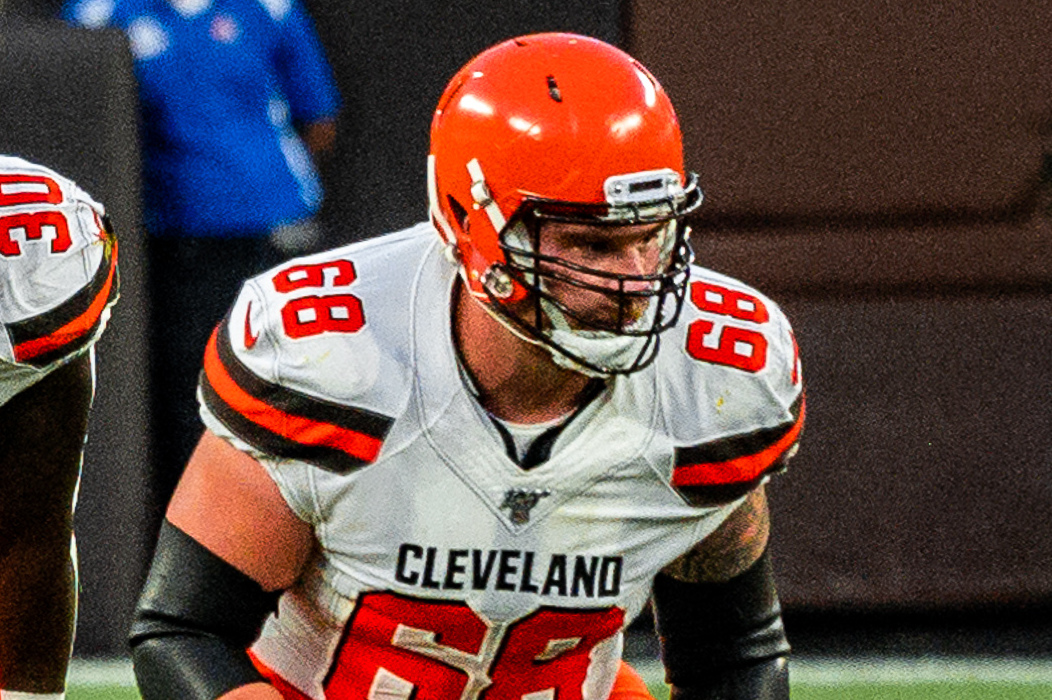 Cleveland Browns offense going against the Washington Redskins during a preseason game on August 8, 2019.